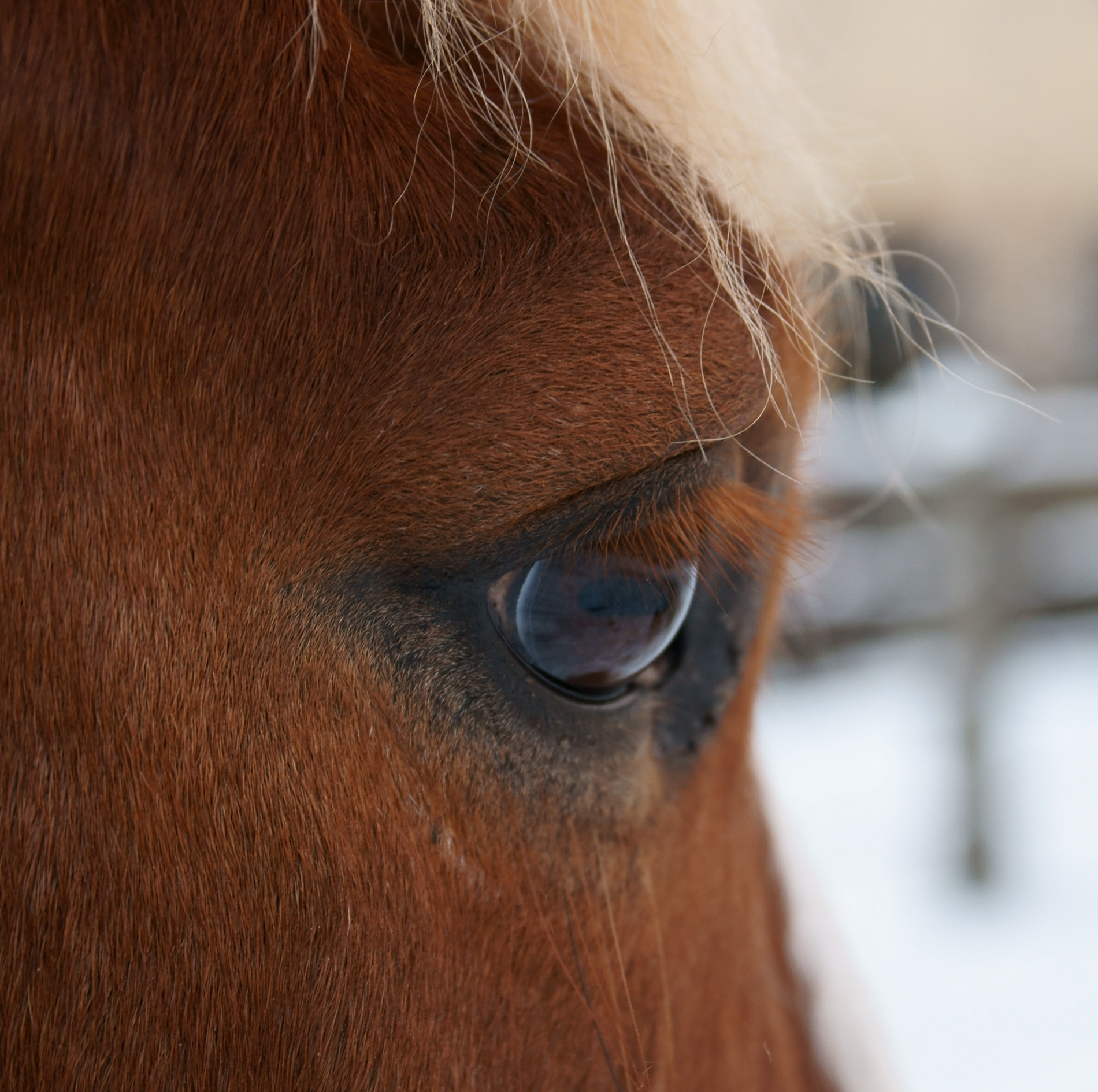 Eye of horse.